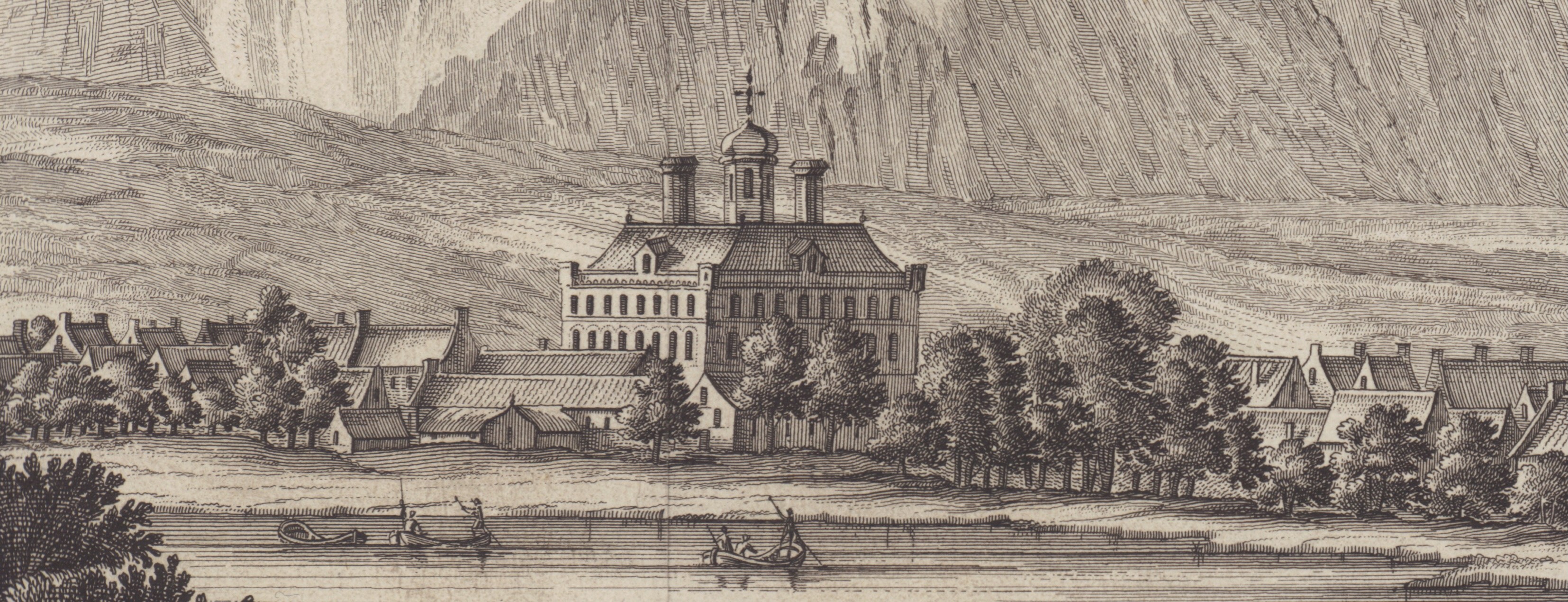 Old Dunkeld House detail from "The Prospect of the Town of Dunkeld", Dunkeld in the 17th century from Slezer's Theatrum Scotiae, Sheet 24. Image from Theatrum Scotiae by John Slezer, 1693